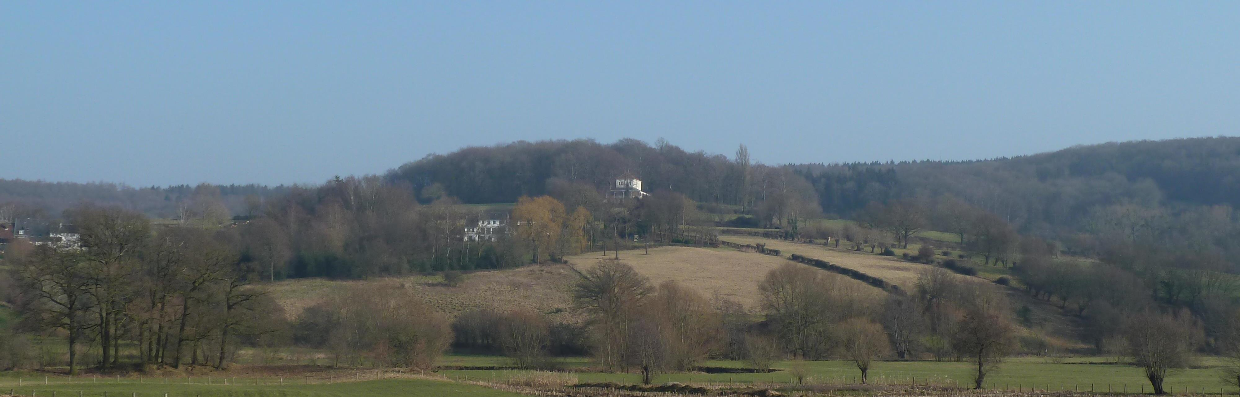 Bommerigerweg 23, Mechelen, Limburg, the Netherlands